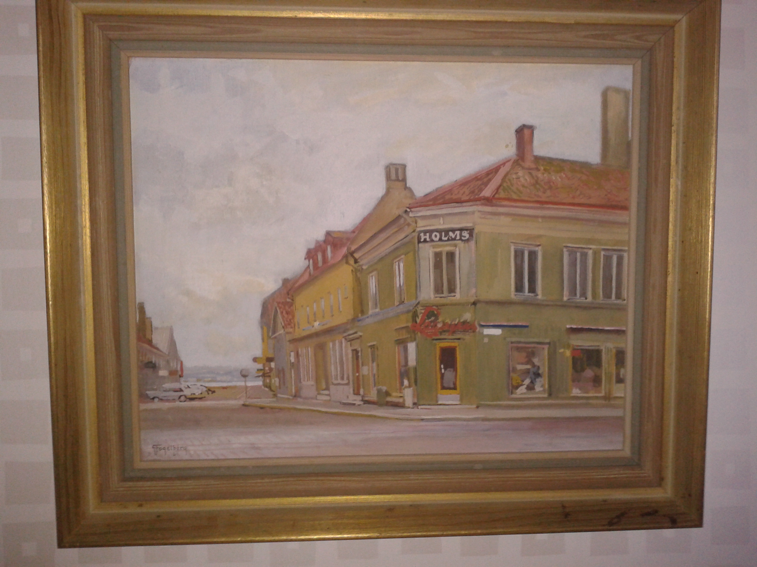 Gustaf Fogelberg; Östra Storgatan 13, Jönköping, Sweden